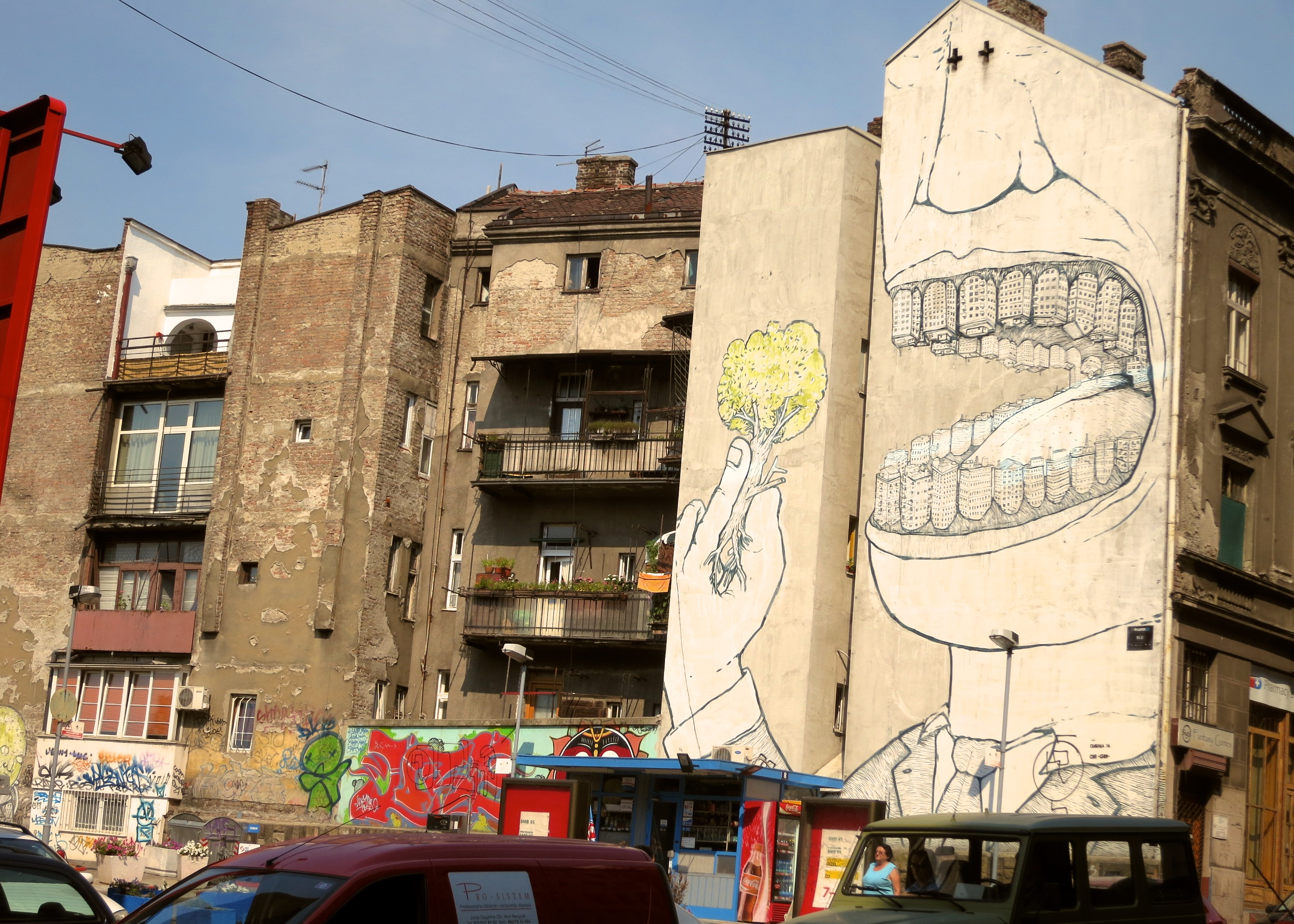 Mural "Drvojed" ("Tree eater") in Pop Lukina street in Belgrade, Serbia (Blue, 2009)